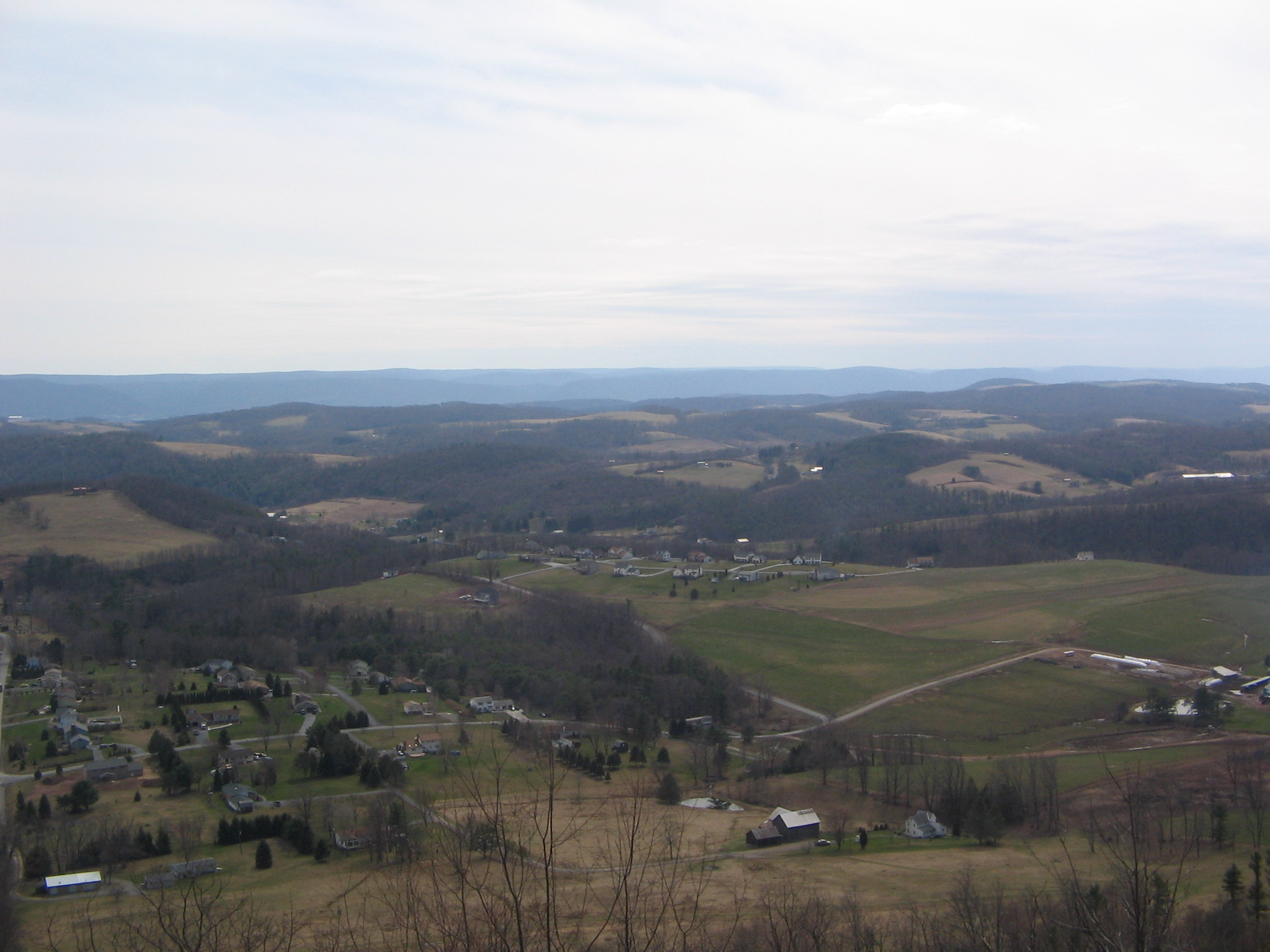 Eldred Township from the Katy Jane Trail at Ryder Park, Lycoming County, Pennsylvania, USA